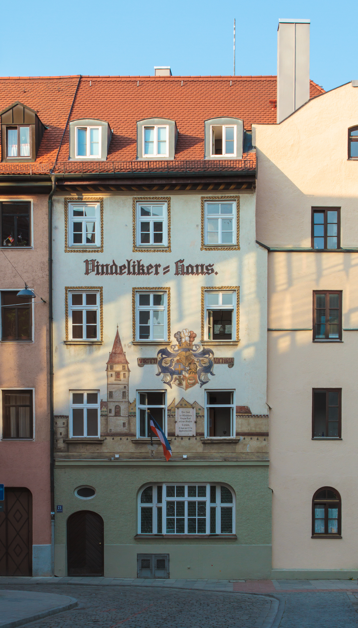 Vindelikerhaus - Munich - 2013